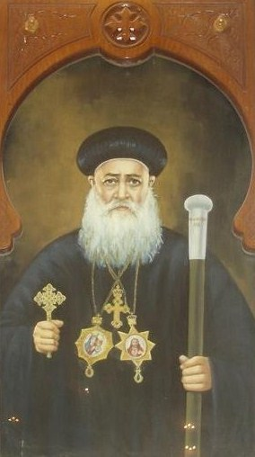 Pope Macarius III of Alexandria, 114th Pope of Alexandria & Patriarch of the See of St. Mark.